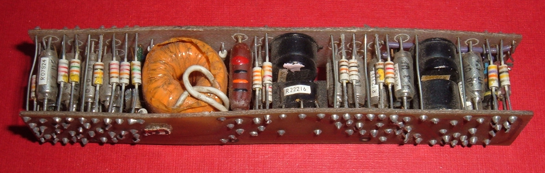 Electronics module exhibiting cordwood construction. I took this picture of an object in my possession on February 3, 2006.